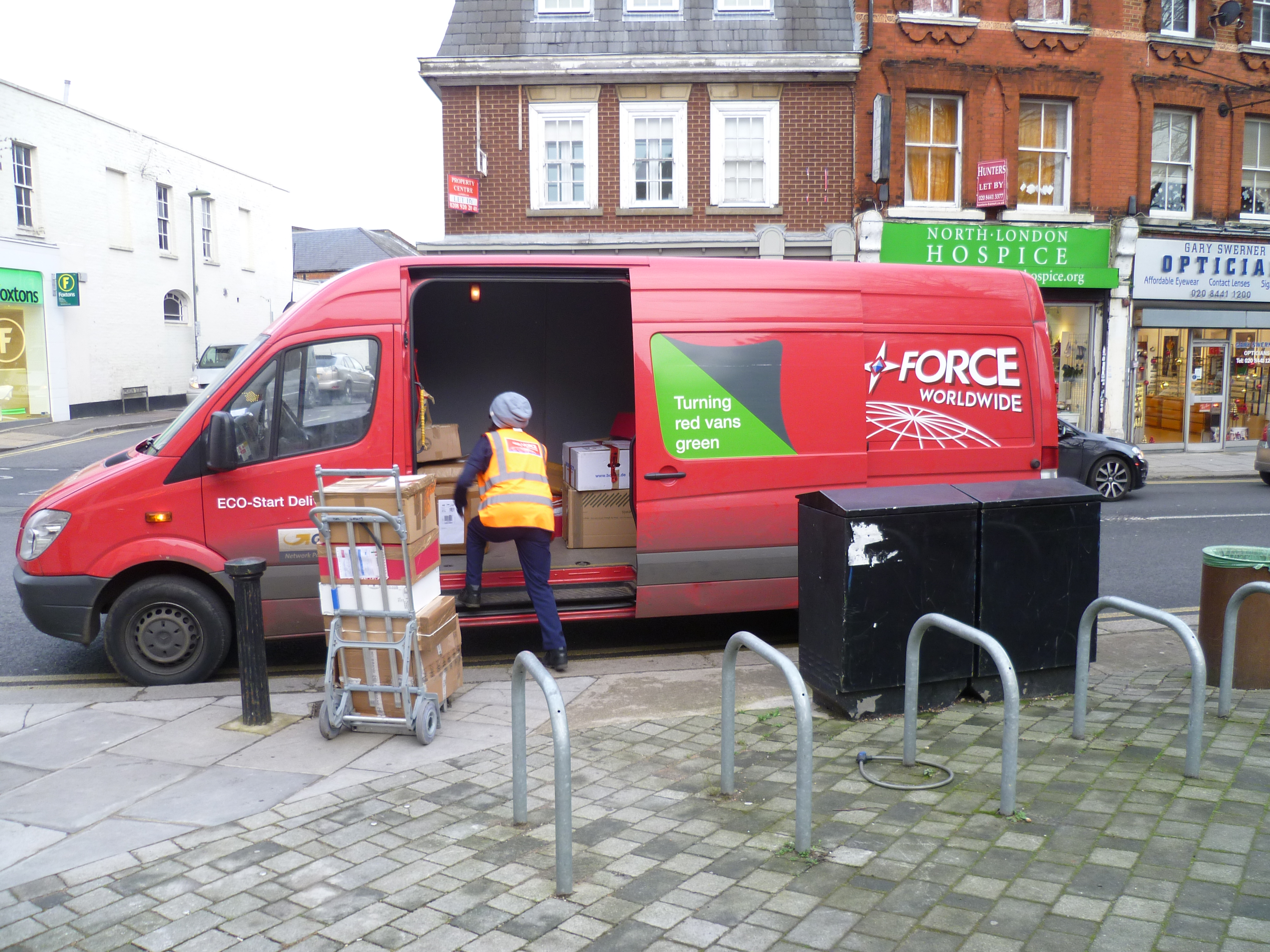 Parcel Force vehicle in Chipping Barnet